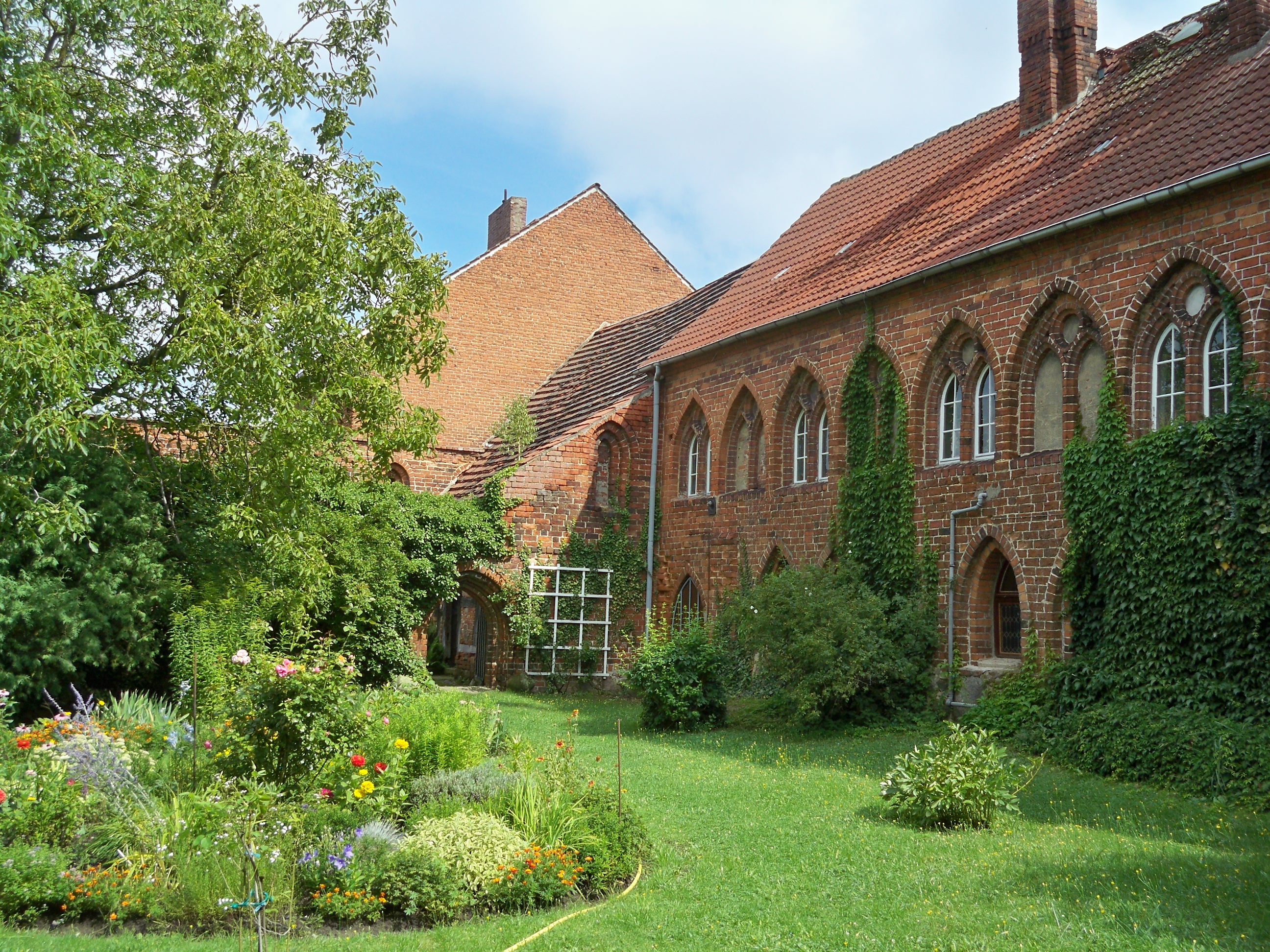 Kloster Neuendorf, Gardelegen, Saxony-Anhalt, former monastery, garden